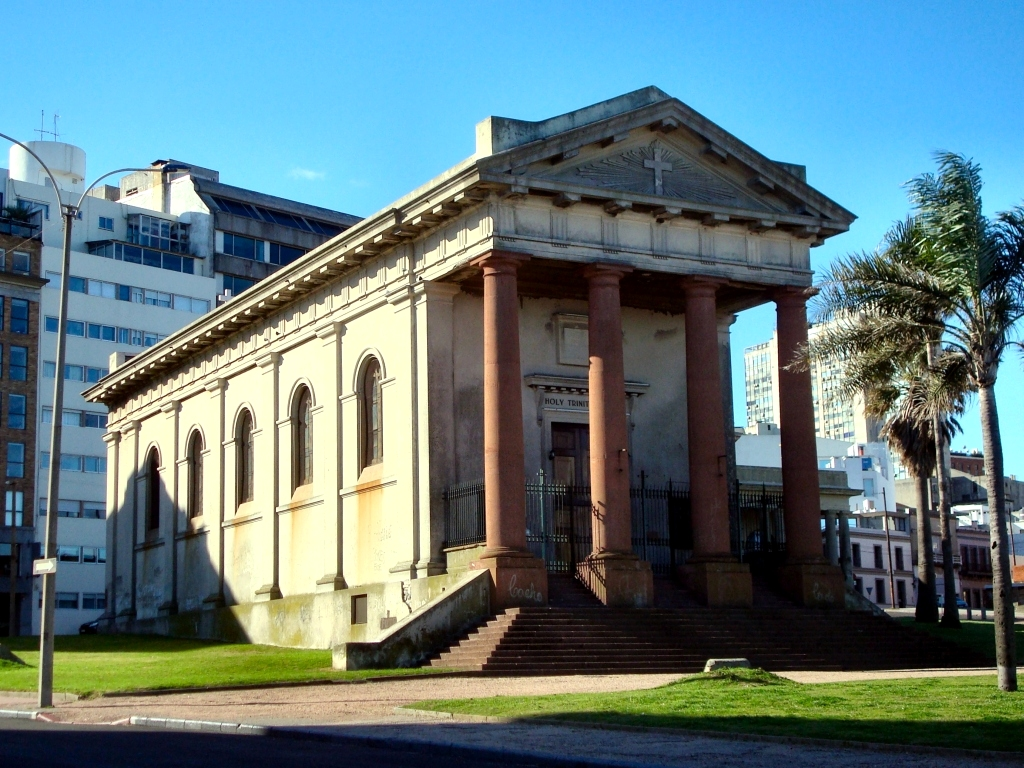 The Anglican Church, Ciudad Vieja, Montevideo, Uruguay. National Heritage Site since 1975.